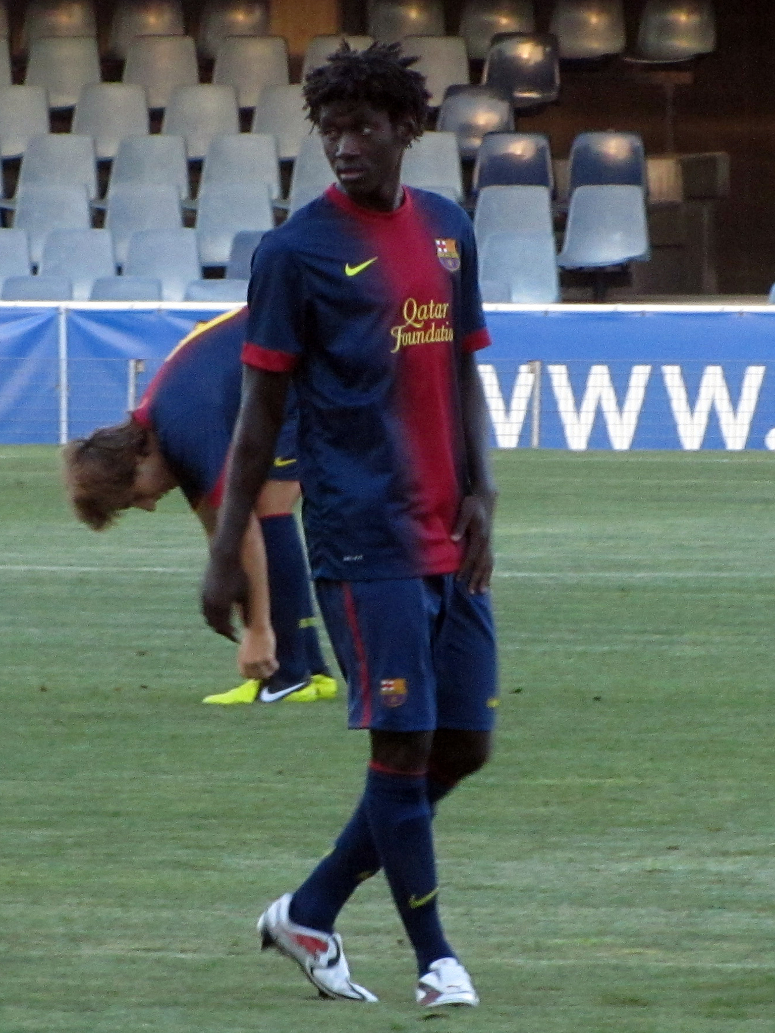 FC Barcelona B player Frank Bagnack in a 2012-13 home kit. Foto realizada por Javier Segura (@castroquini)